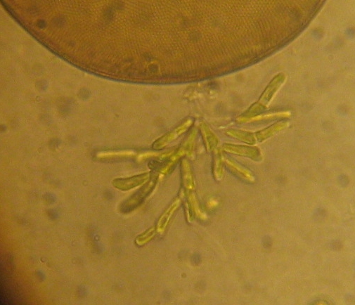 Microthamnion. Humotrophic (dystrophic) lake. Northern Poland.